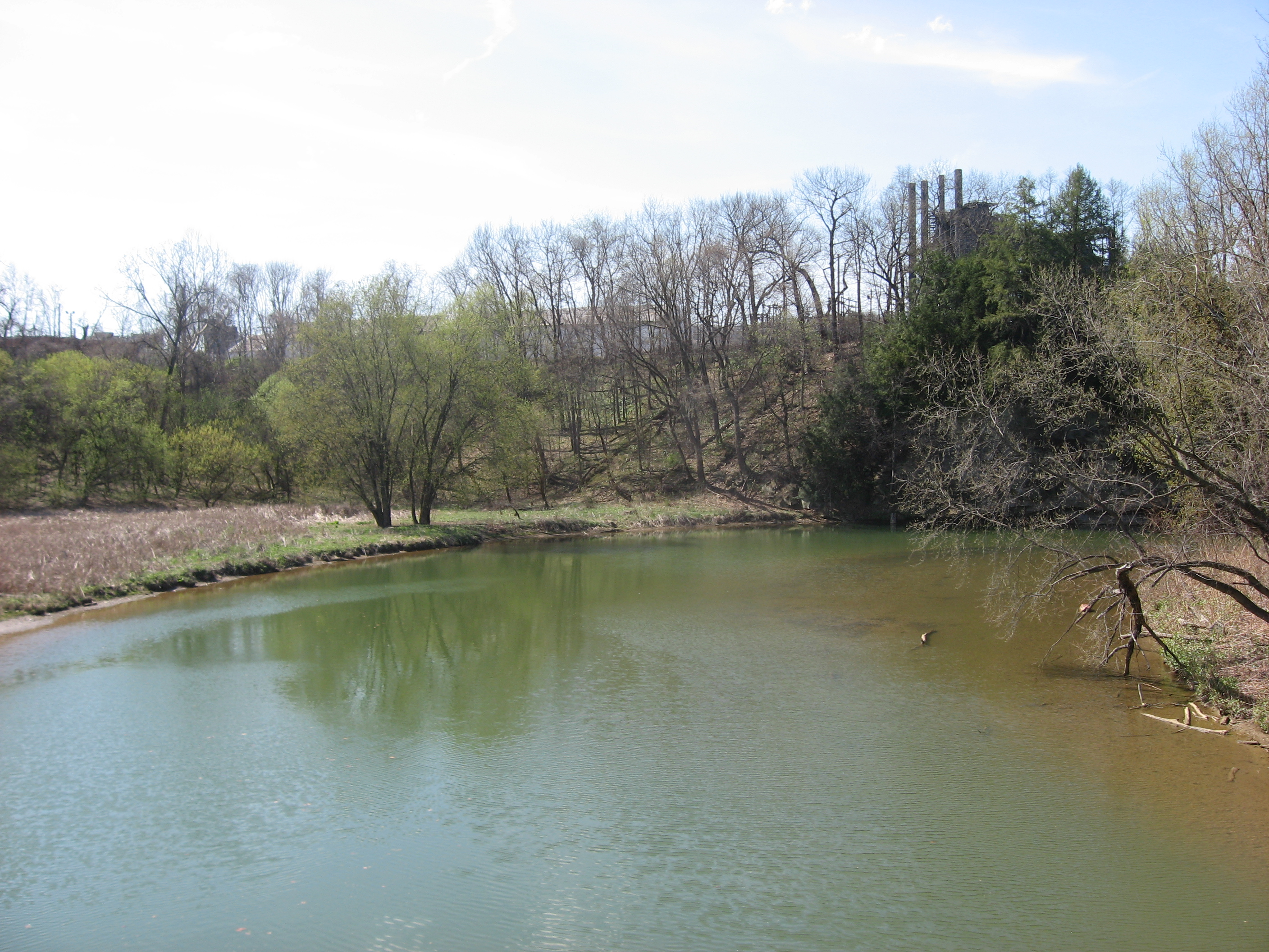 Downstream along Raccoon Creek near its mouth at the Ohio River, viewed from the Route 18 bridge in Potter Township, Beaver County, Pennsylvania, United States.